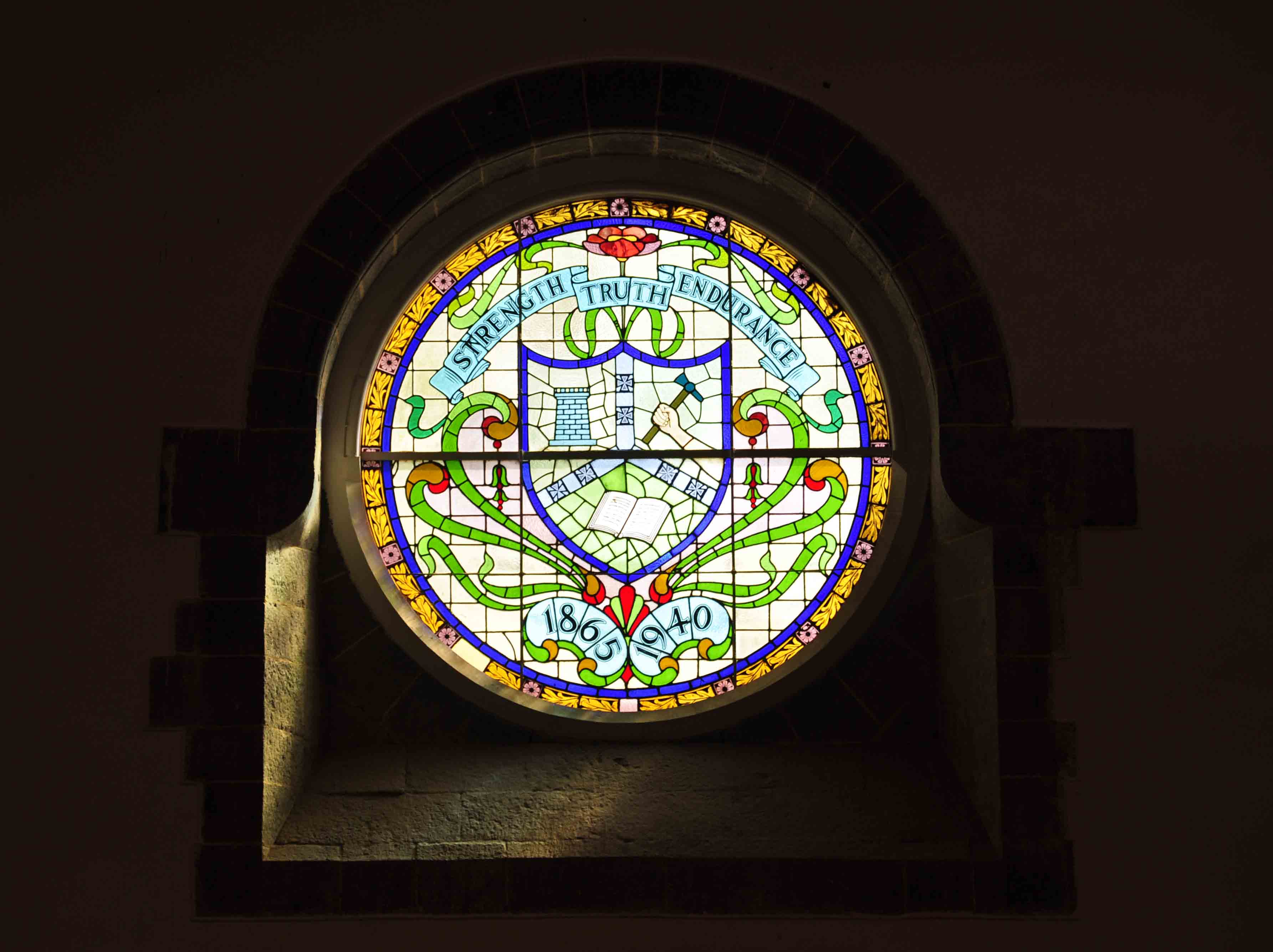 The diamond jubilee window in the CoEP main hall